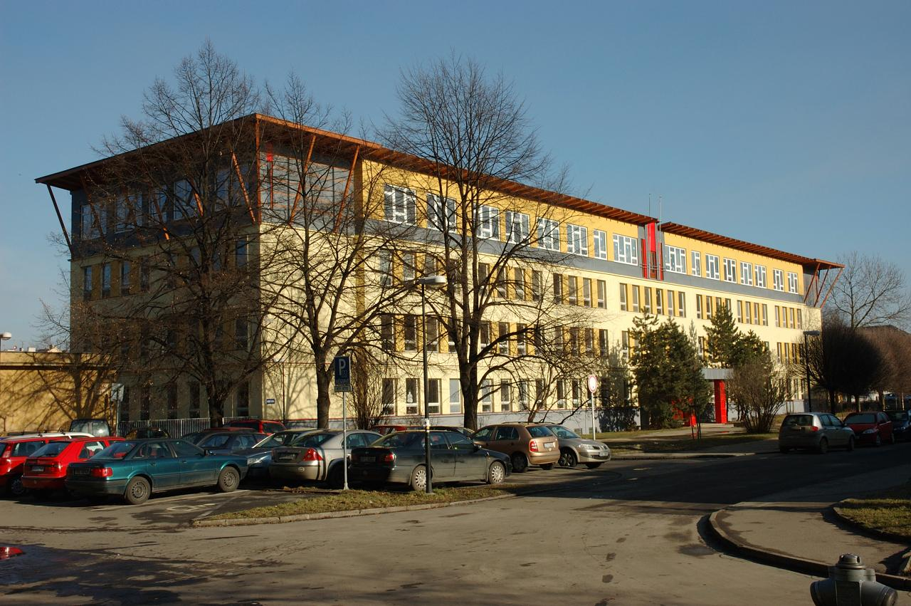 Building of 1st International School of Ostrava, Czech Republic